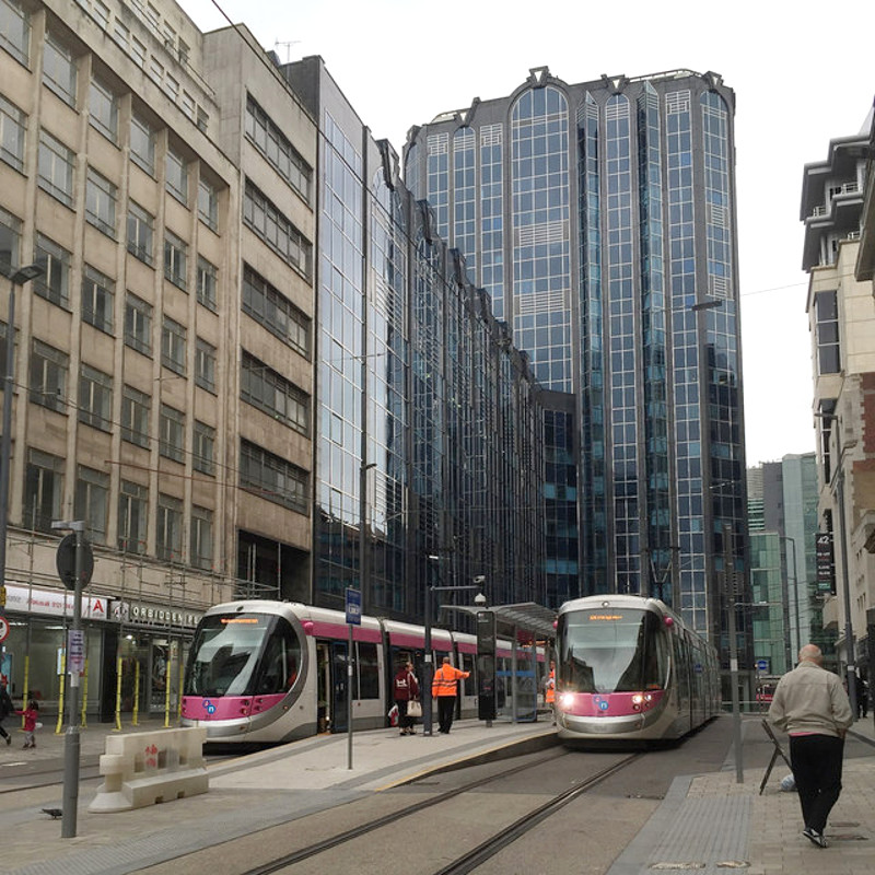 Bull Street is the temporary terminus of the extended line. The tram on the left has arrived from Wolverhampton. Driver training is under way in the right-hand tram: the Metro extension down Corporation Street to Stephenson Street and New Street station opens on Monday 30 May 2016, a bank holiday.